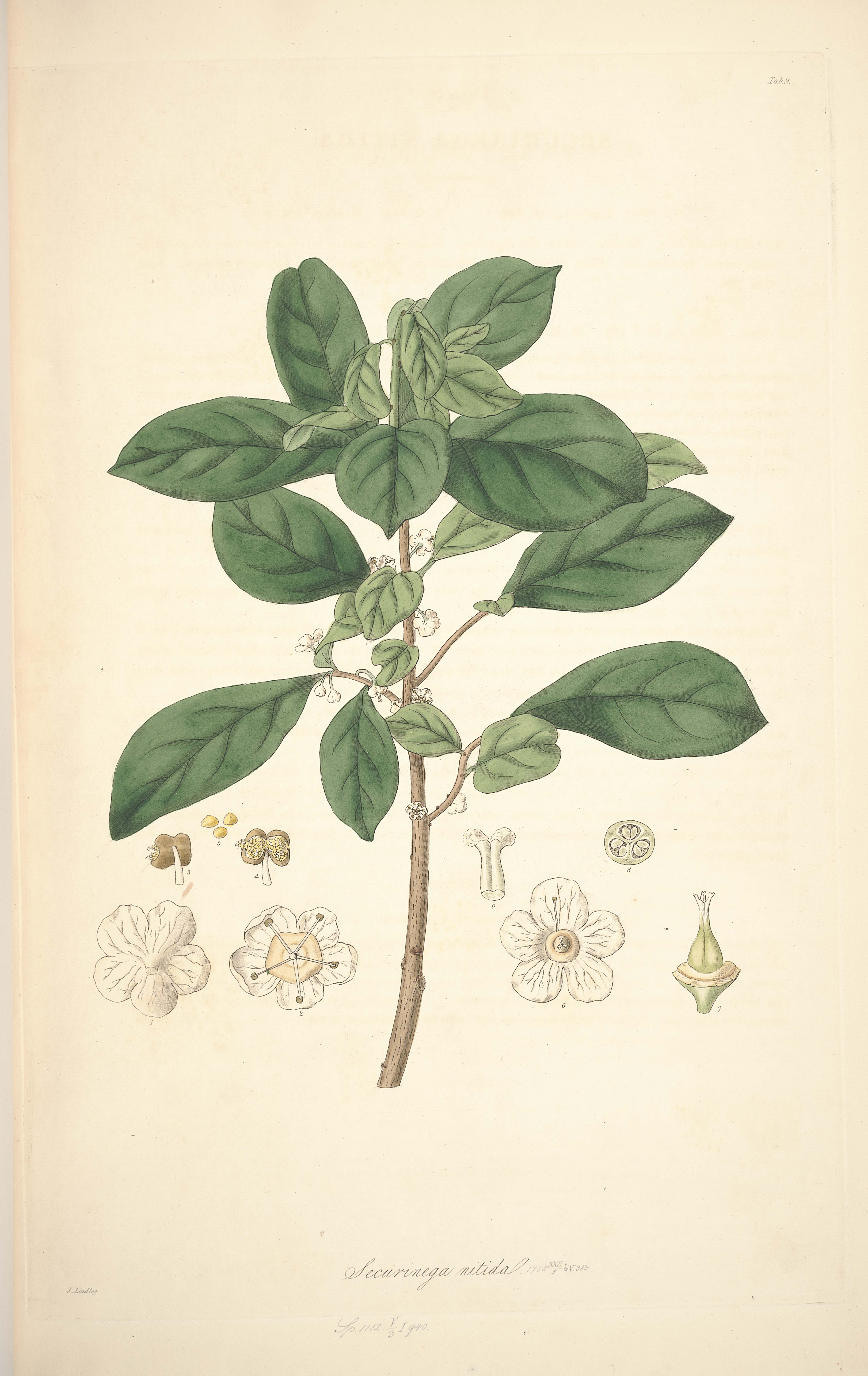 Illustration from John Lindley's "Collectanea botanica or, figures and botanical illustrations of rare and curious exotic plants"